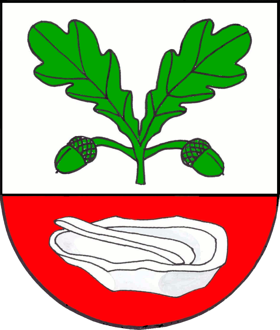 Coat of arms of the municipality Quarnstedt in Schleswig-Holstein, Germany.